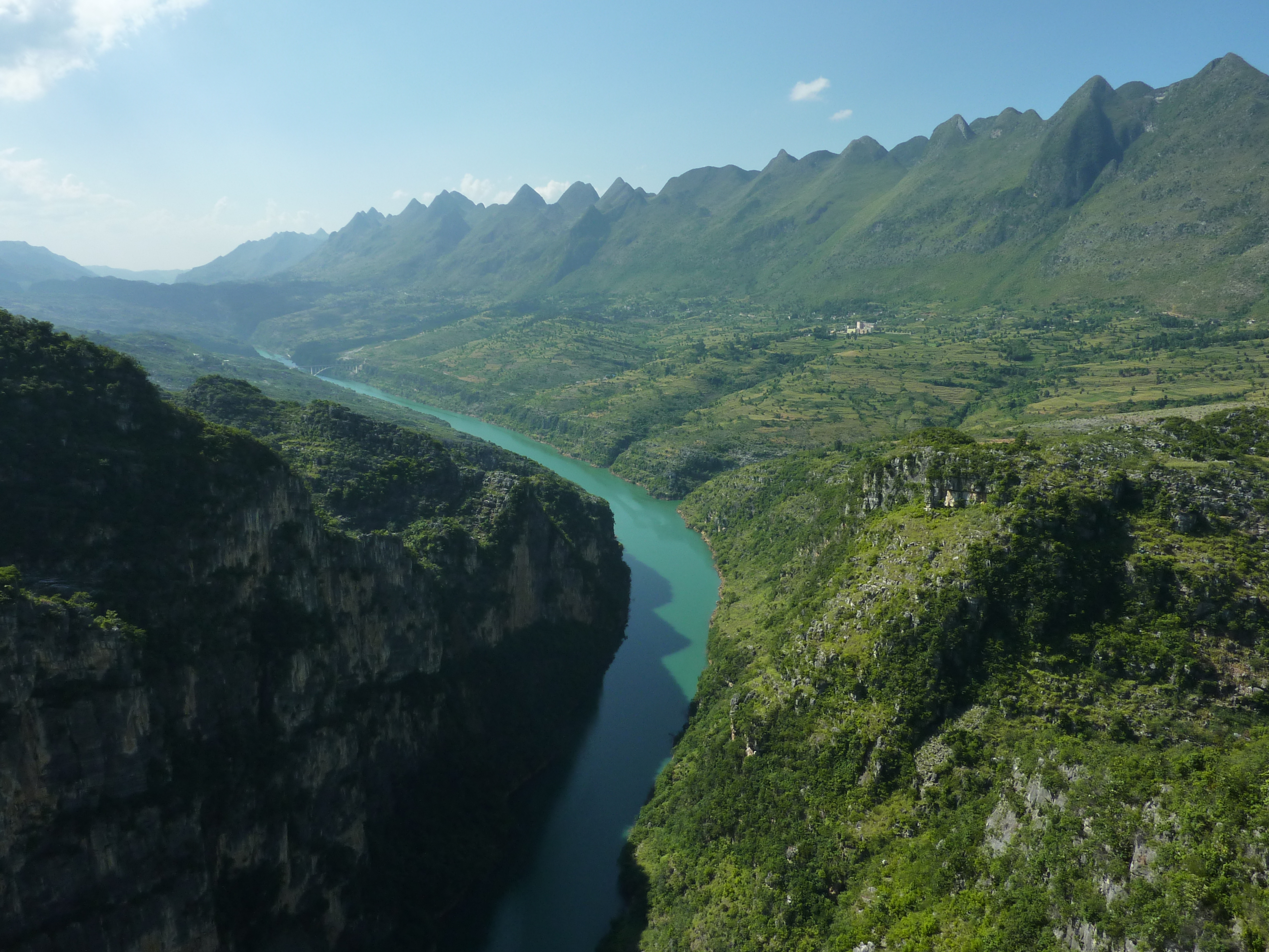 The Beipanjiang Suspension Road Bridge in Guizhou province, China